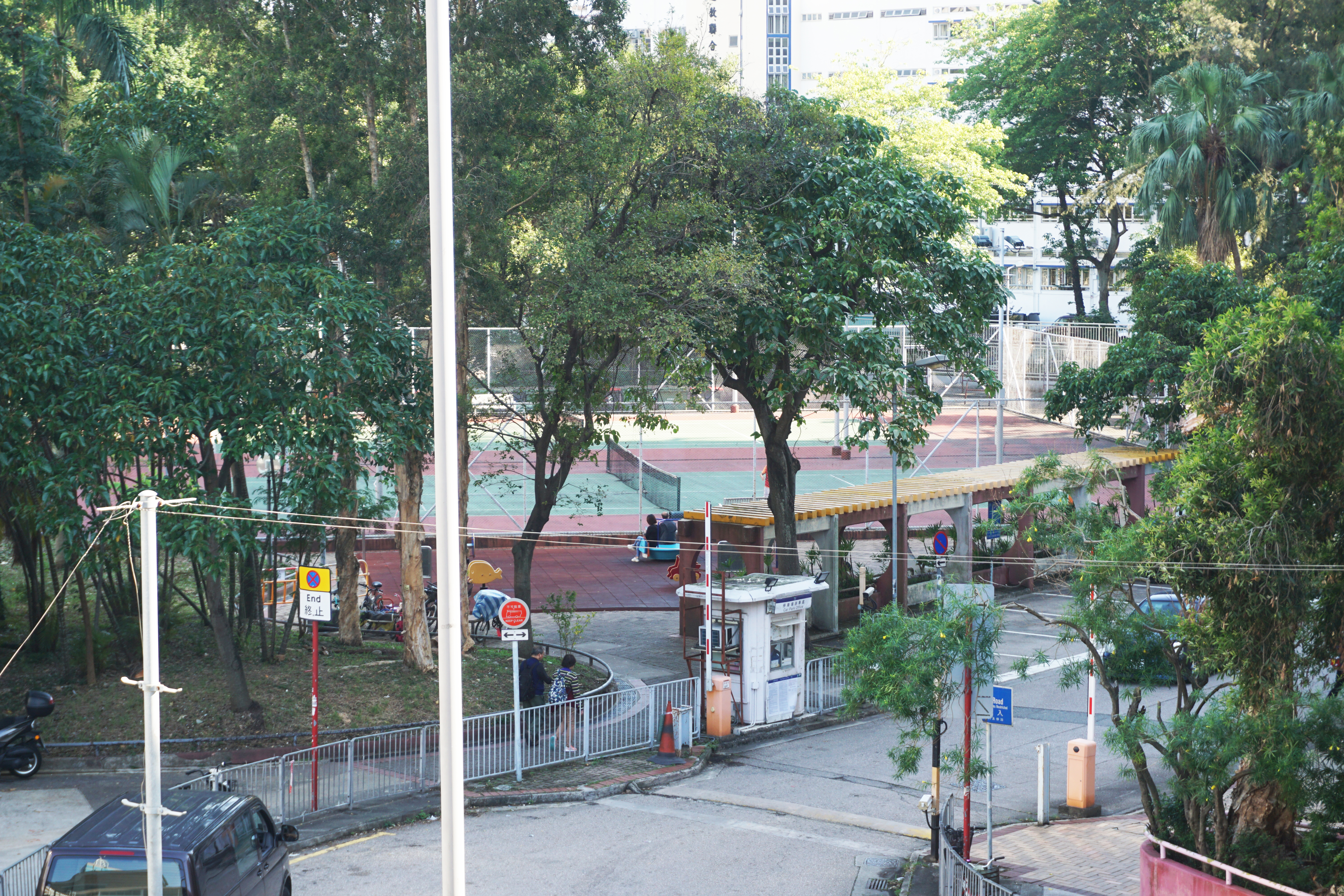 Yuk Po Court in Sheung Shui, Hong Kong.